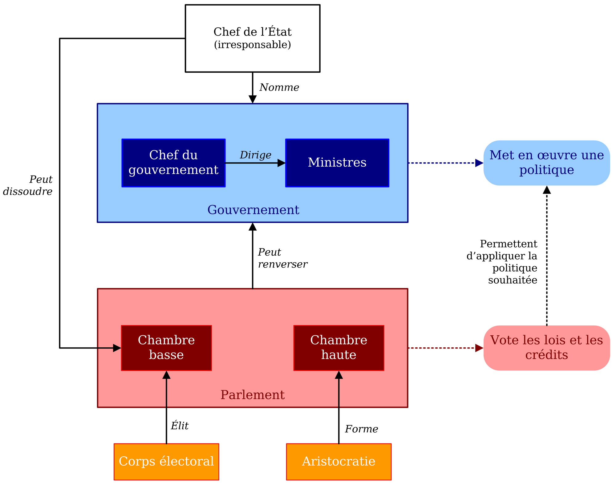 This diagram describes the theorical organization of a parliamentary system.